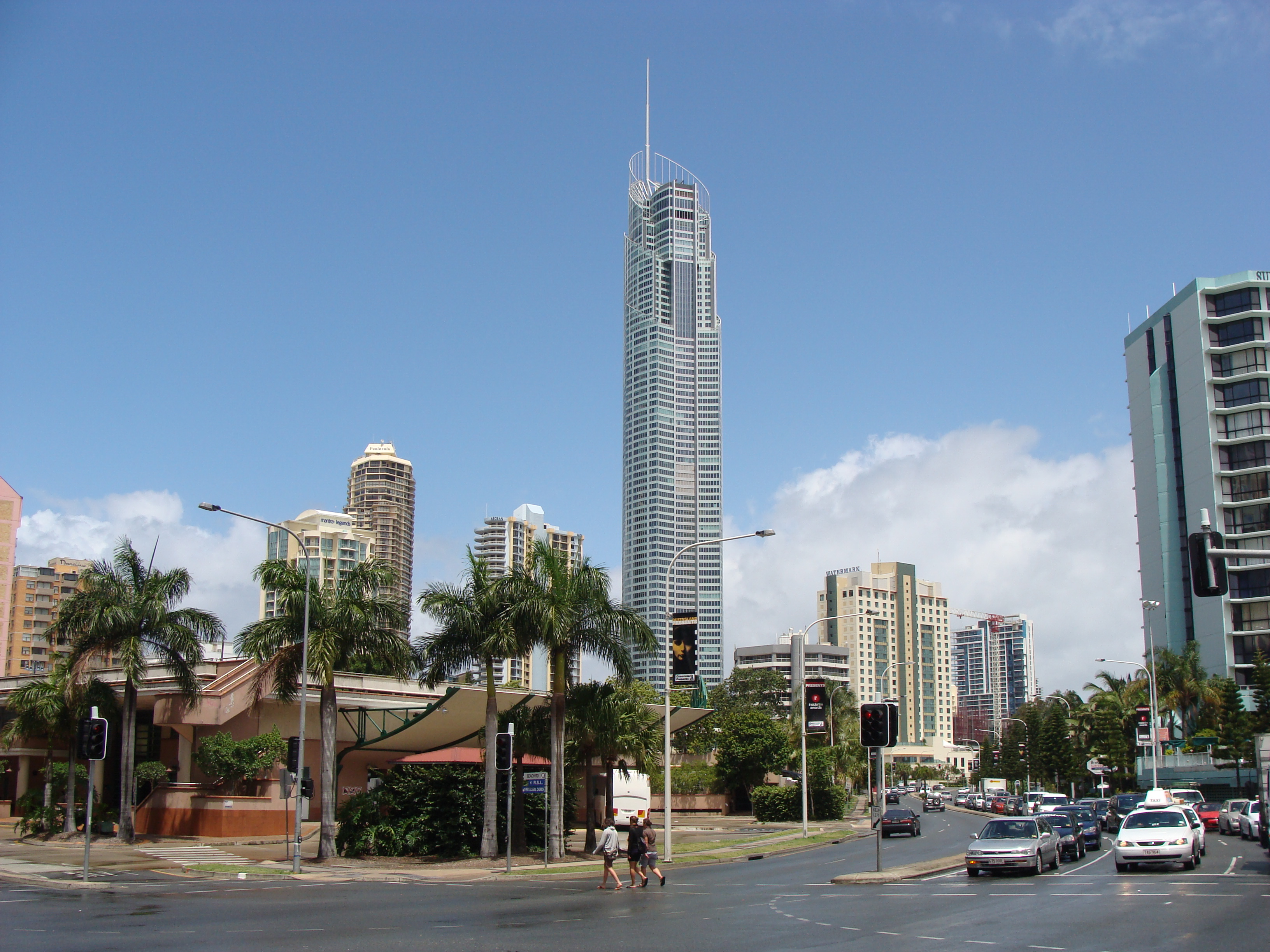 Gold Coast Highway